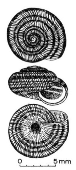 Drawing of apical, apertural and umbilical view of a shell of Helicopsis striata